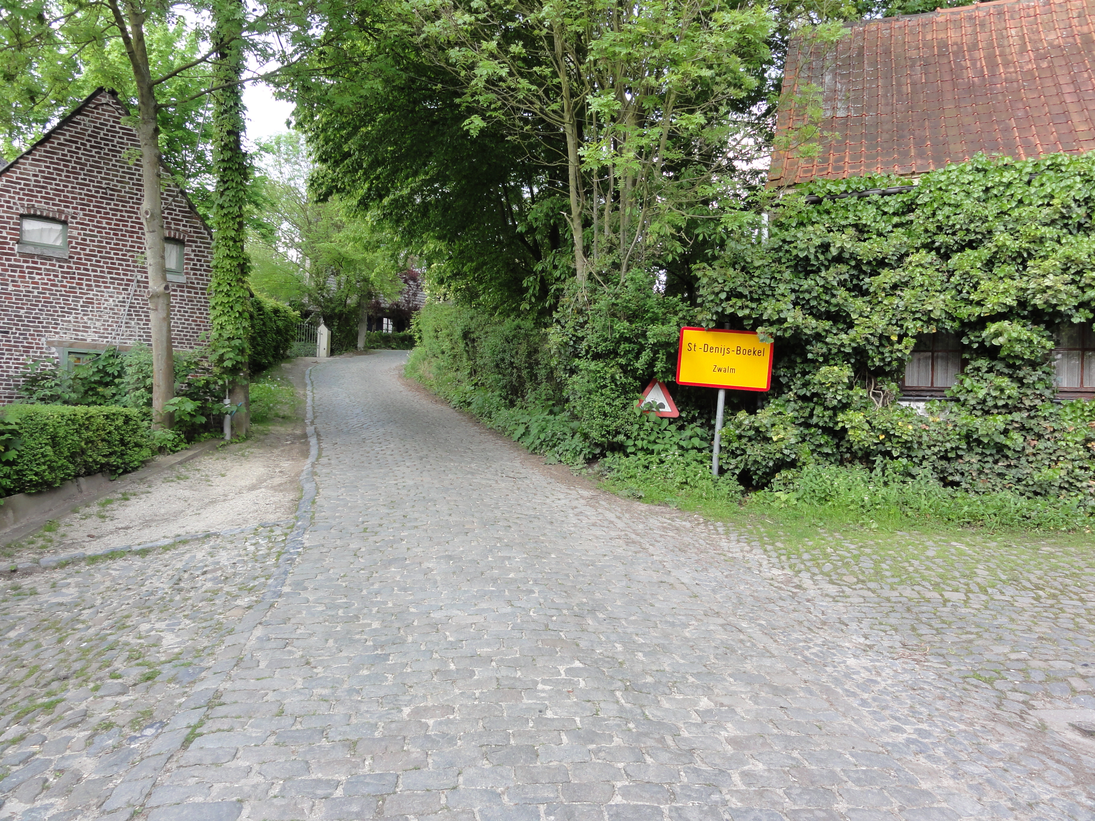 Molenberg cobblestone road and hill in Sint-Denijs-Boekel. Sint-Denijs-Boekel, Zwalm, East Flanders, Belgium